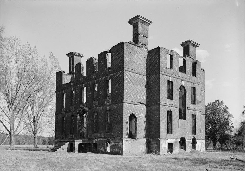 Home of John Page, governor of Virginia. Built 1725, burnt 1916. Rosewell, Carter Creek , White Marsh vicinity, Gloucester County, Virginia